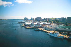 Halifax harbour, with naval base in foreground, downtown in background, McNab's island far in background, taken from MacDonald bridge.